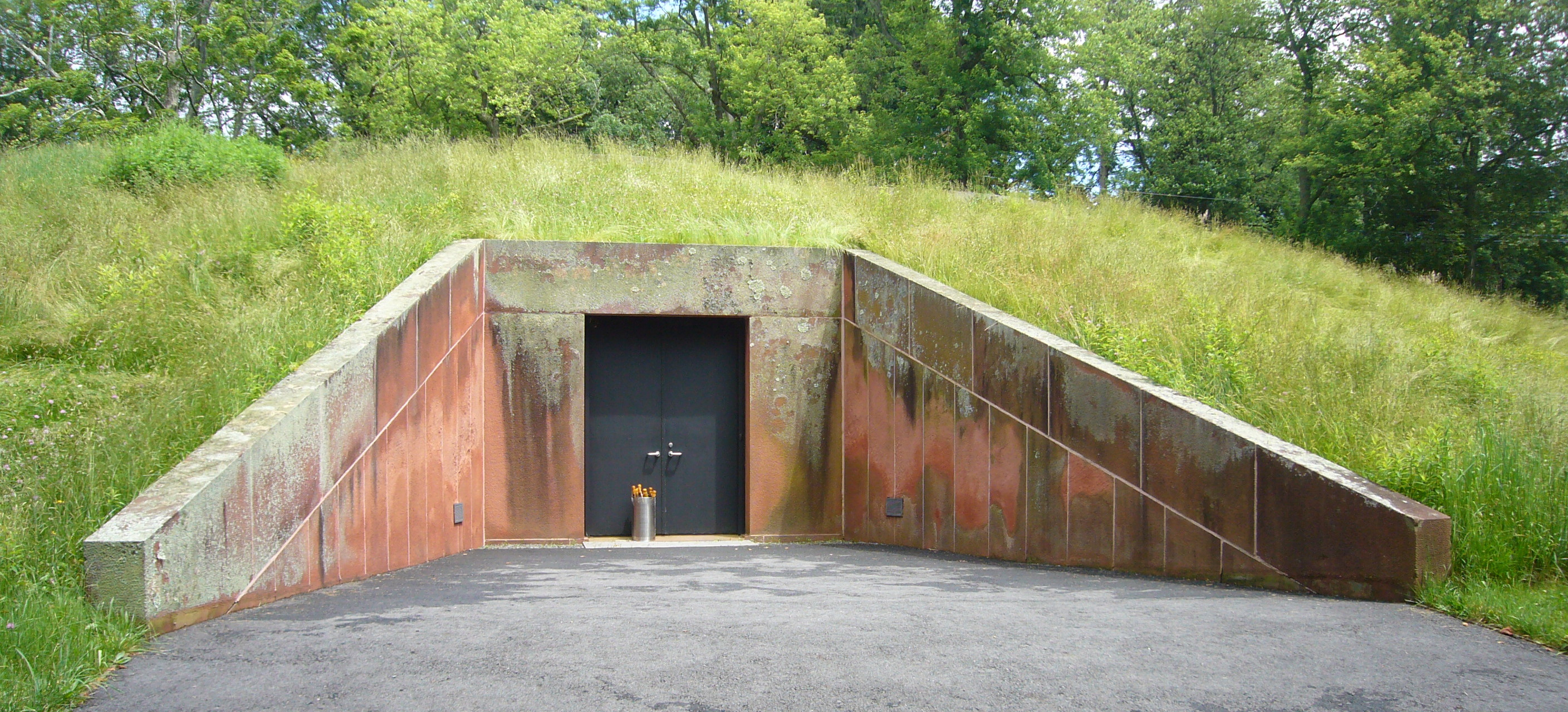 Entrance to the Painting Gallery at the Philip Johnson estate (Glass House) in New Canaan, CT (USA).